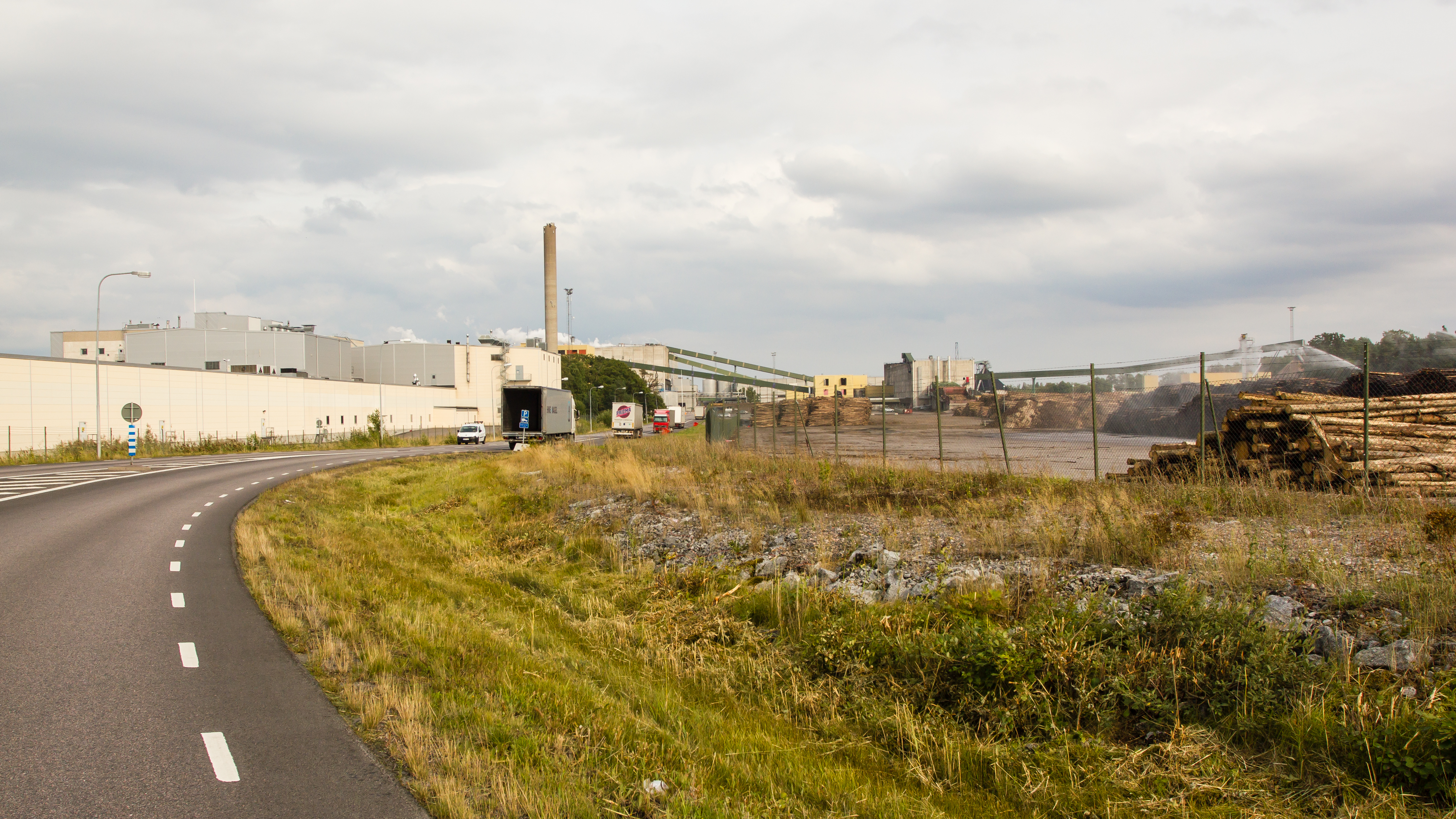 Braviken paper mill, Norrköping Municipality, Sweden.